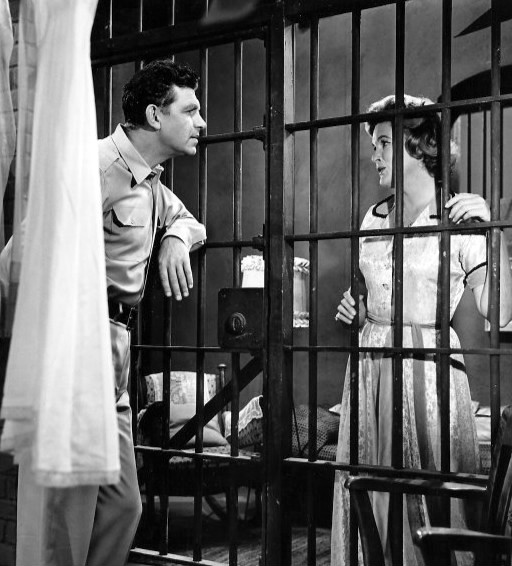 Photo of Andy Griffith and Jean Hagen from the television program The Andy Griffith Show. When Andy jails a woman for speeding, she turns the jail and the town upside down.